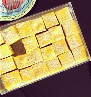 turkish coffee & sfoufs with mom and her sisters that i love